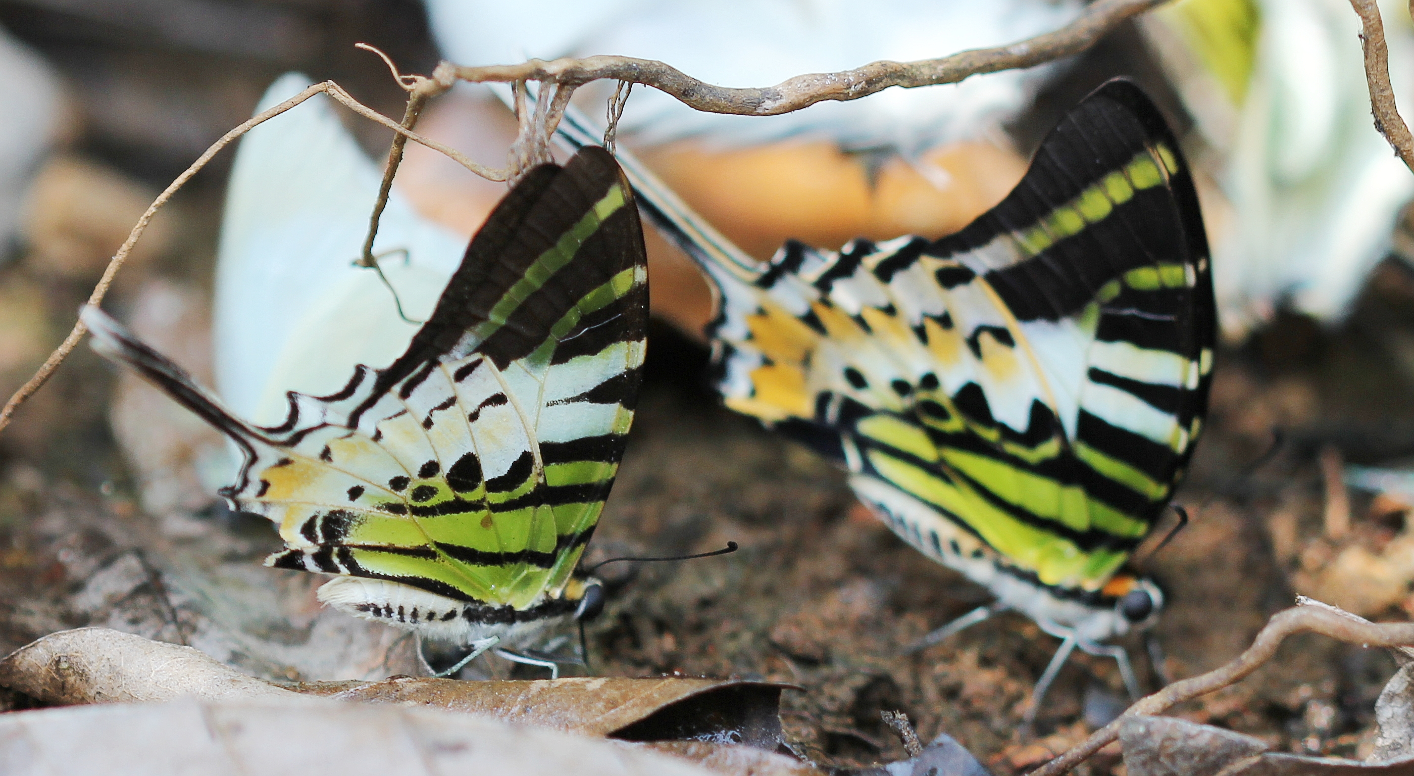 Five bar swordtails mudpuddling in someshwara NP